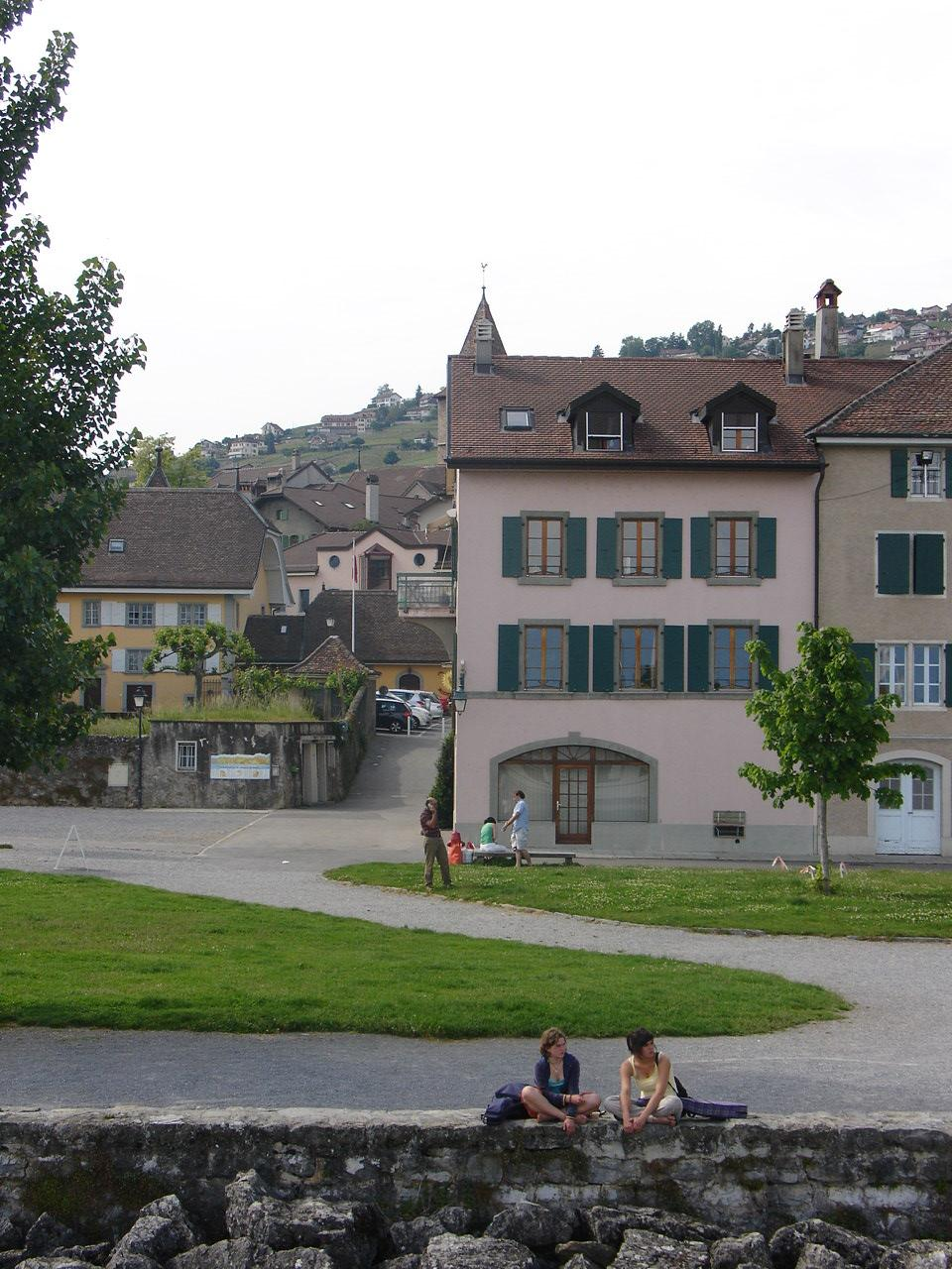 Cully, Vaud, Switzerland